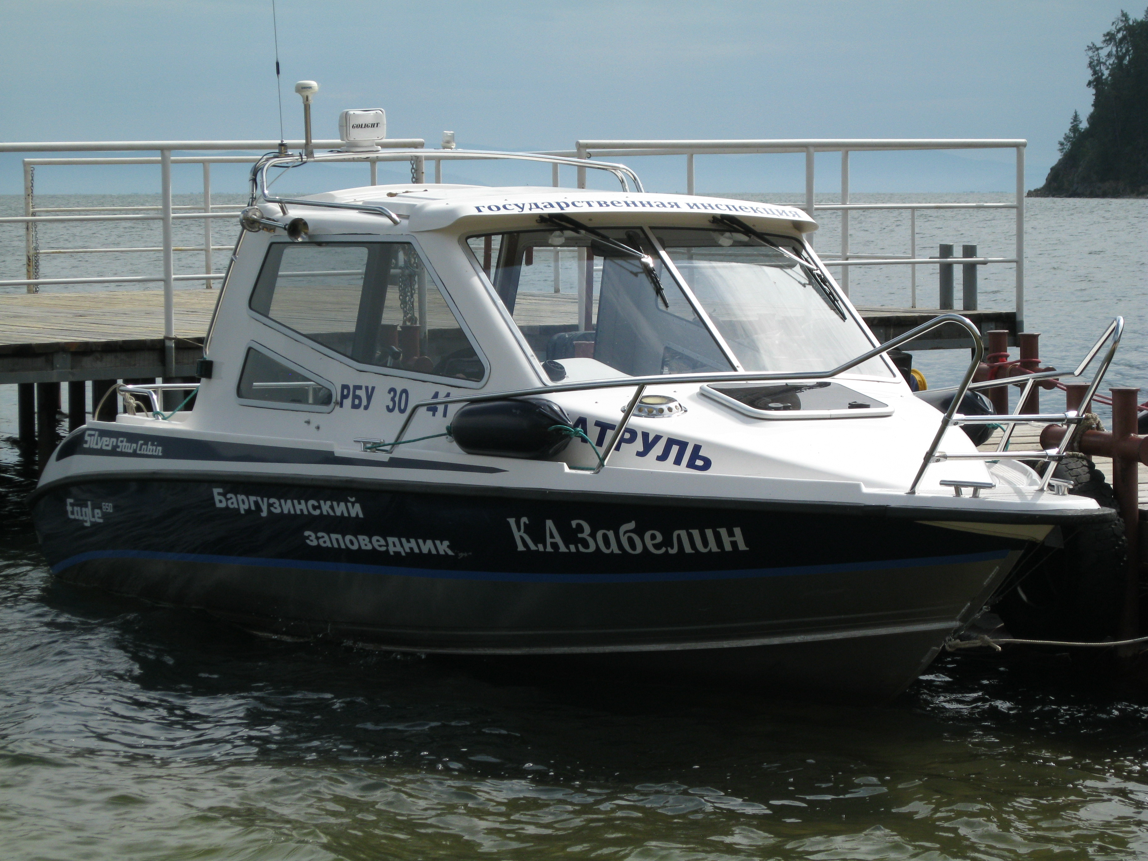 Zabelin boat in Baikal waters, Buryatia, Russia